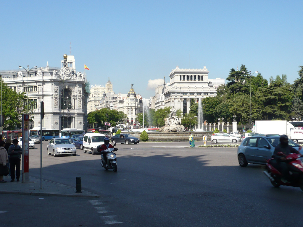 Plaza de Cibeles (square) in Madrid (Spain).